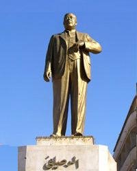 Statue of the Iraqi poet Ma'ruf al-Rusafi